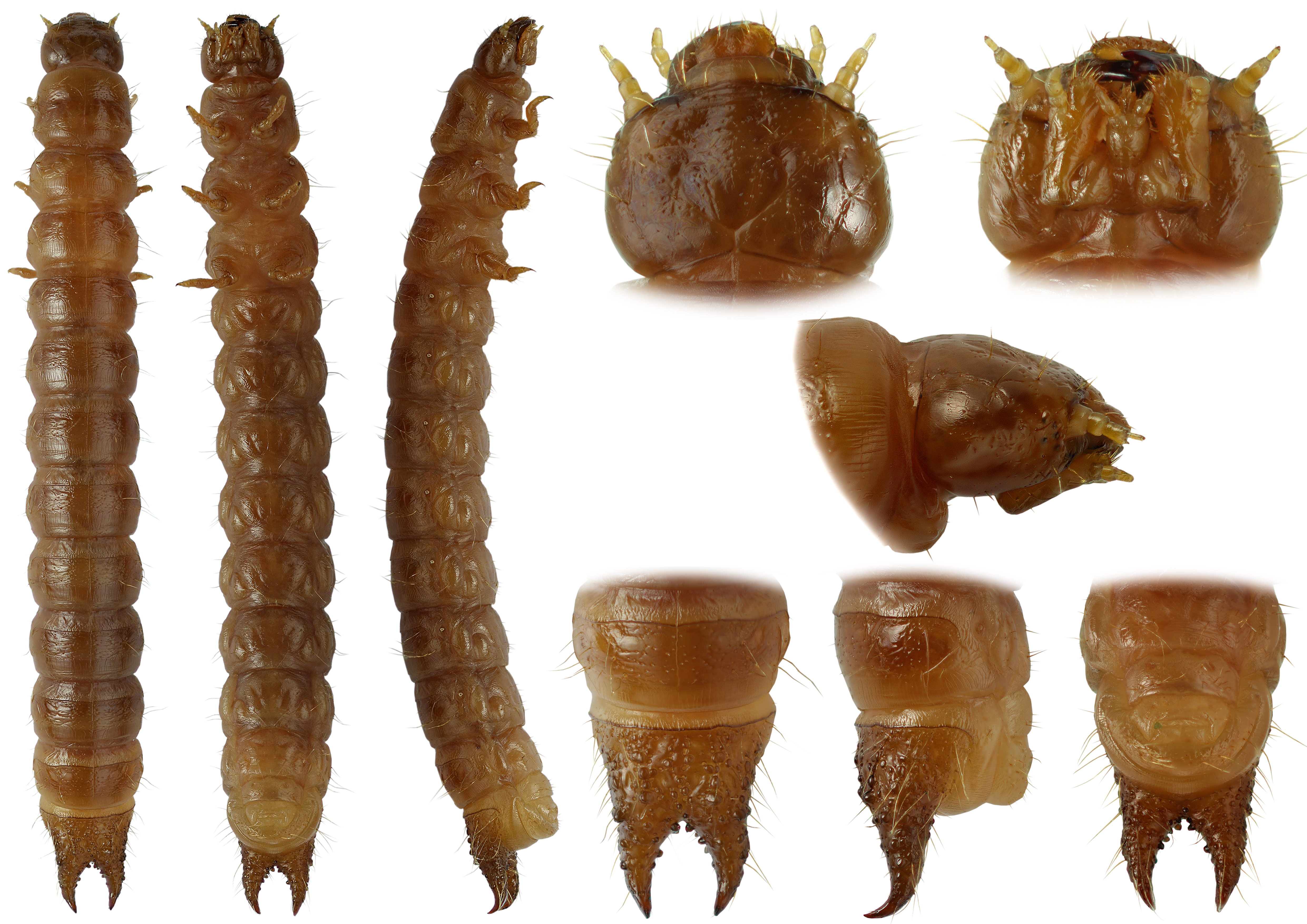 ACT, Uriarra Firest, Brindabella Range, 11.ix.1982, under bark of Pinus, J.F. Lawrence